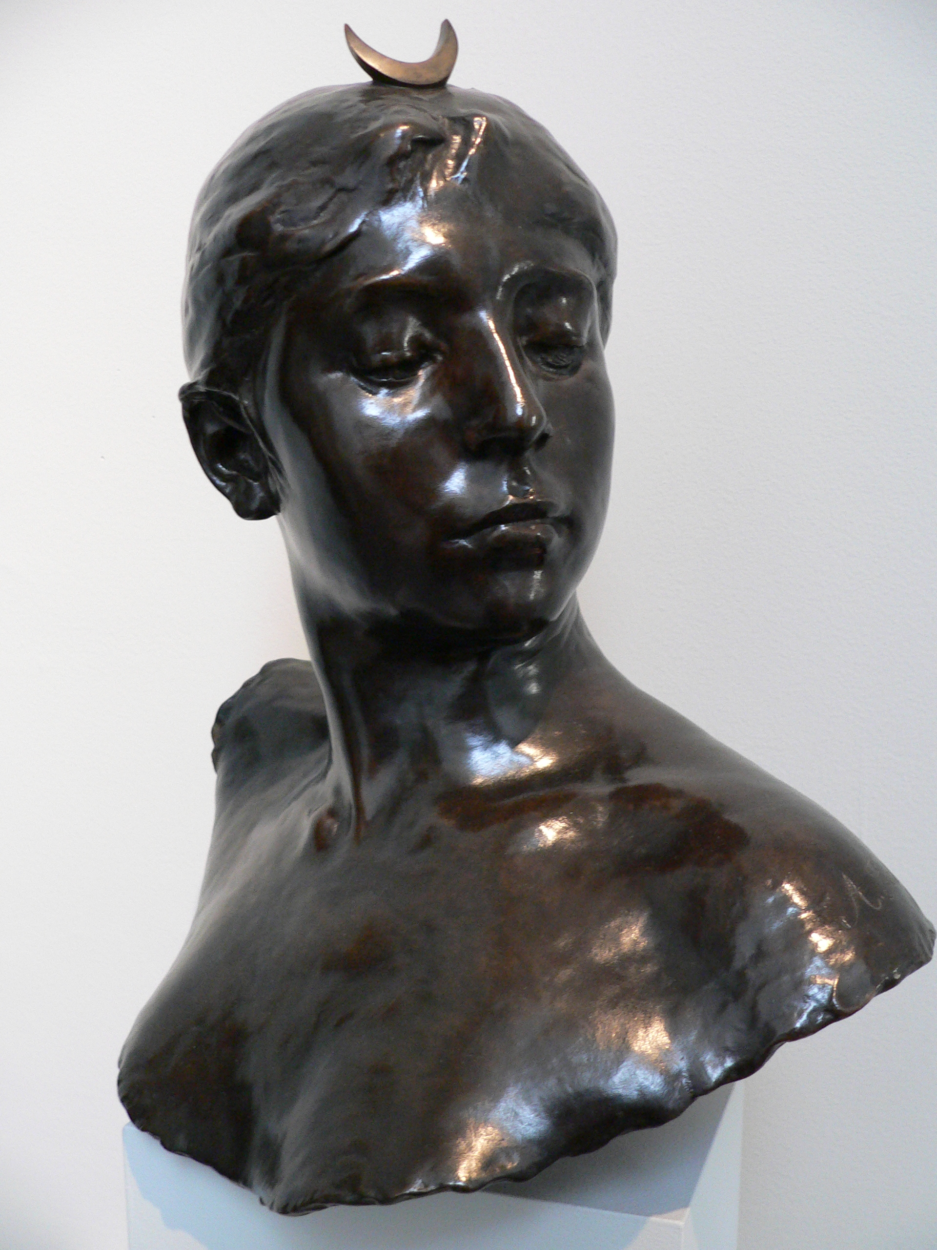 Alexandre Falguière, Bust of Diana c. 1882 Bronze Thiebaud foundry